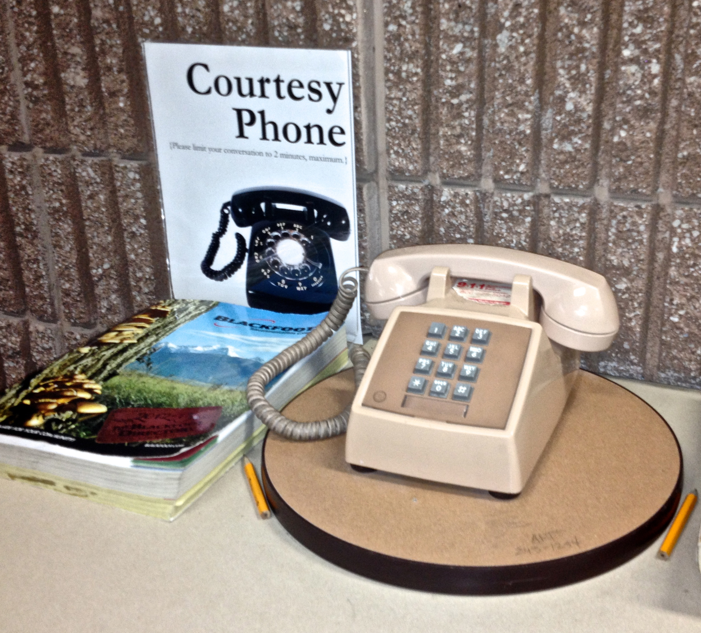 Courtesy phone, telephone book, and pencils - Missoula Public Library. The entire state of Montana is area code 406.